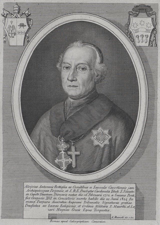 Kardinal Luigi Antonio Bottiglia Savoulx (1752-1836)